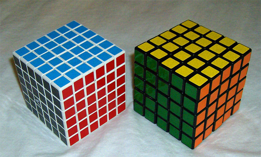 V-Cube 6 on left, official Professor's Cube on right.